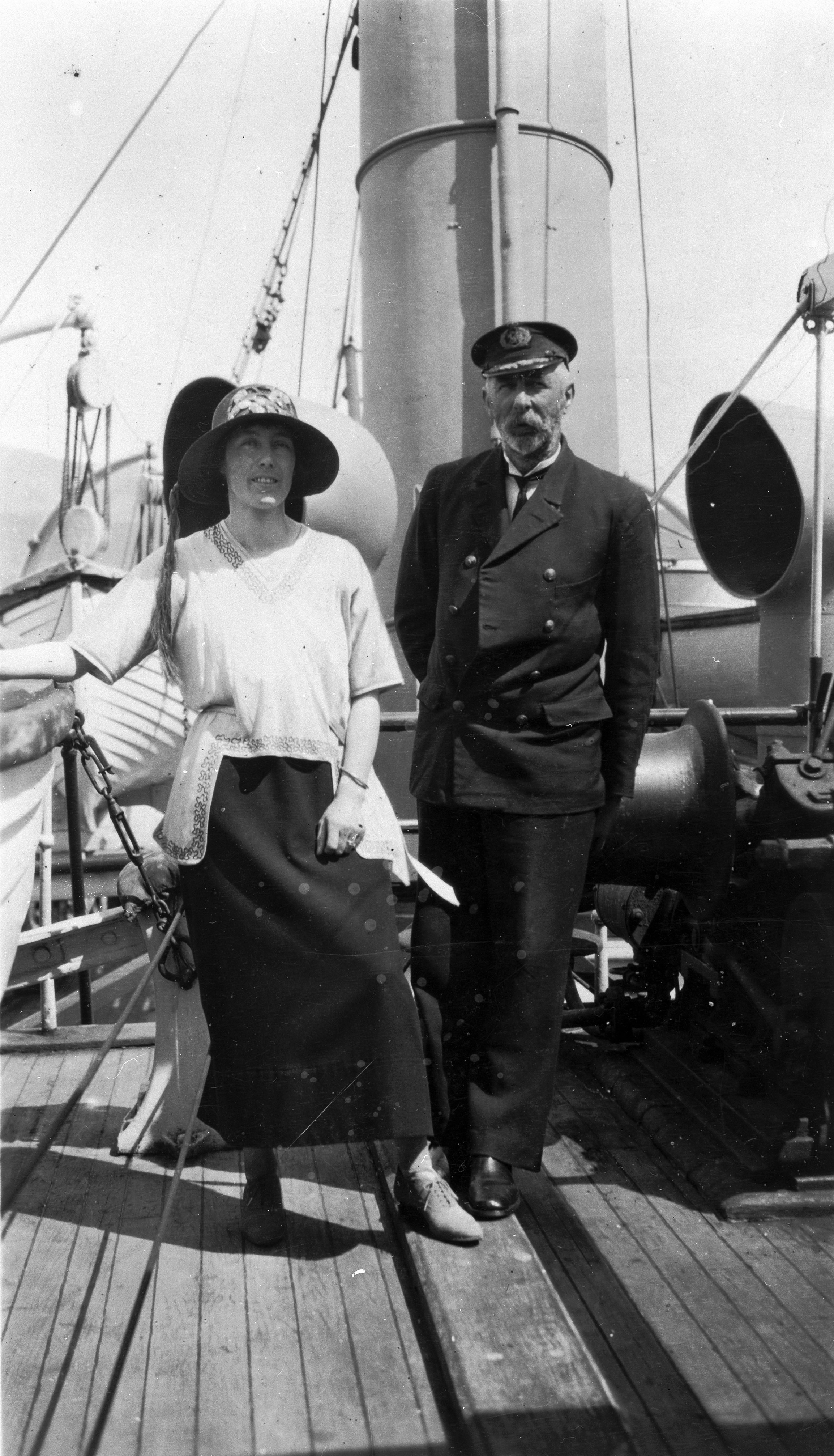 Captain John Peter Bollons, and an unidentified woman, on board the ship Tutanekai at Akaroa, November 1923.